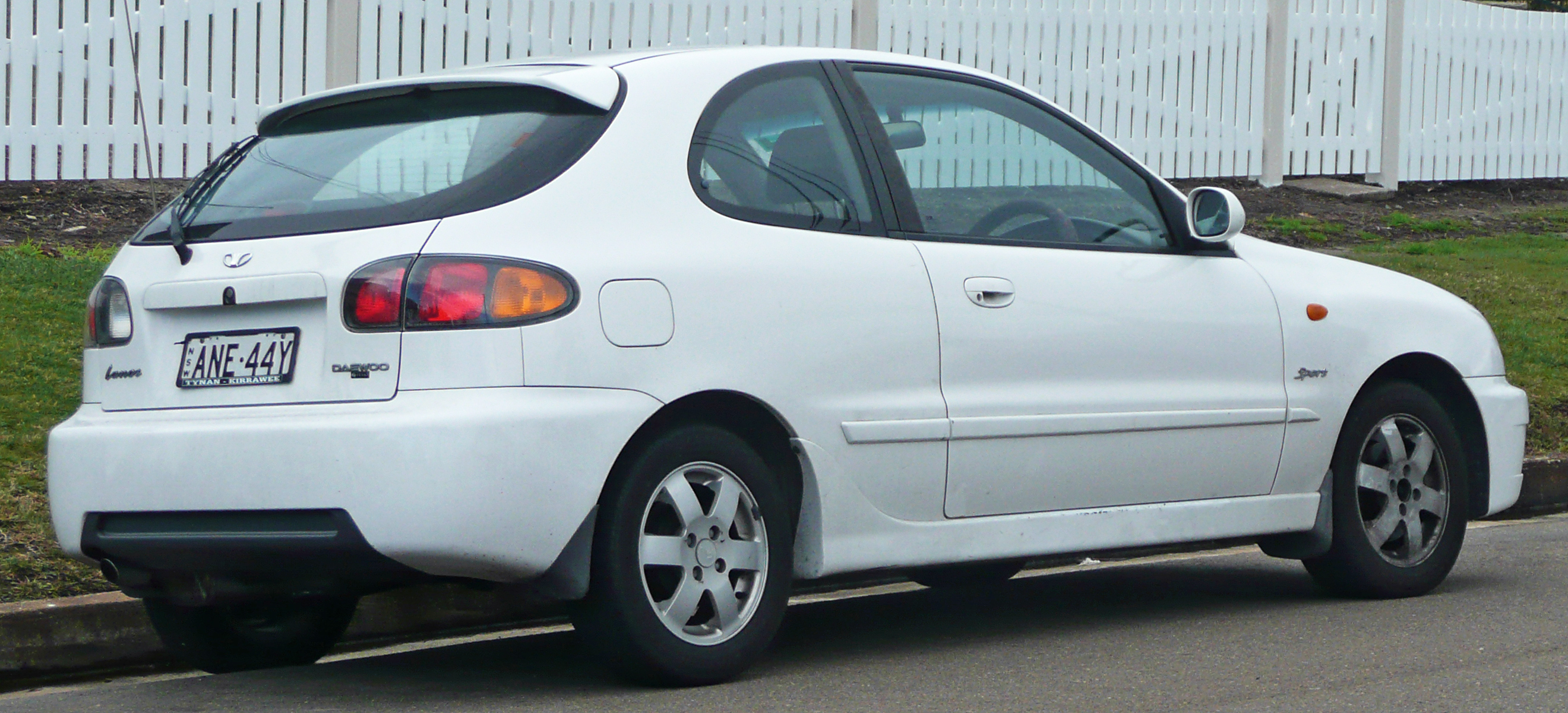 2001 Daewoo Lanos (T150) Sport 3-door hatchback. Photographed in Cronulla, New South Wales, Australia.